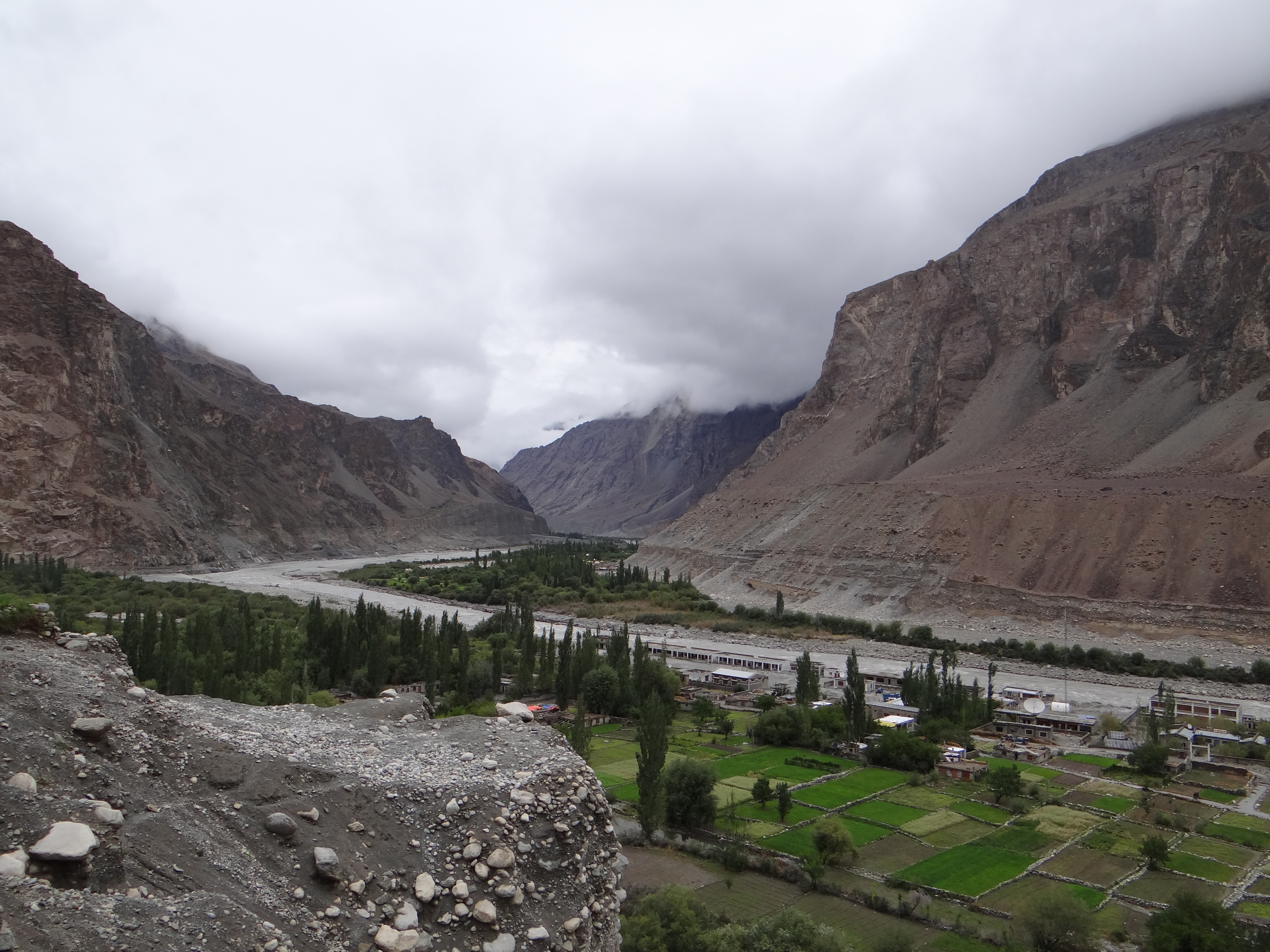 View of Shyok Valley from Turtuk Village, Ladakh